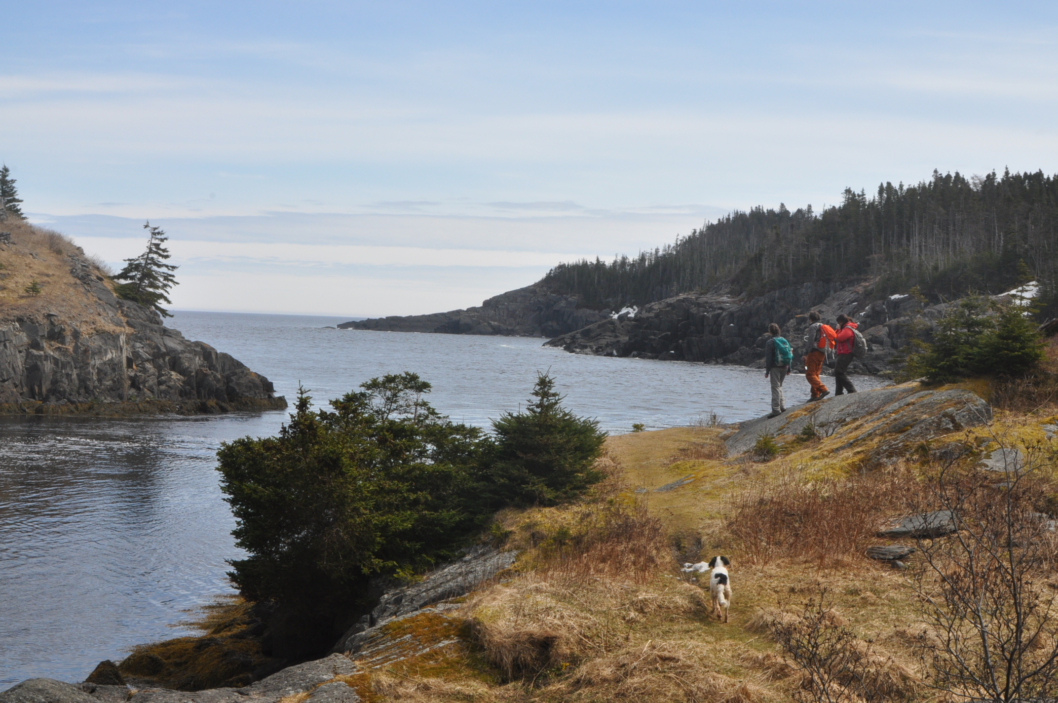 La Manche, NL